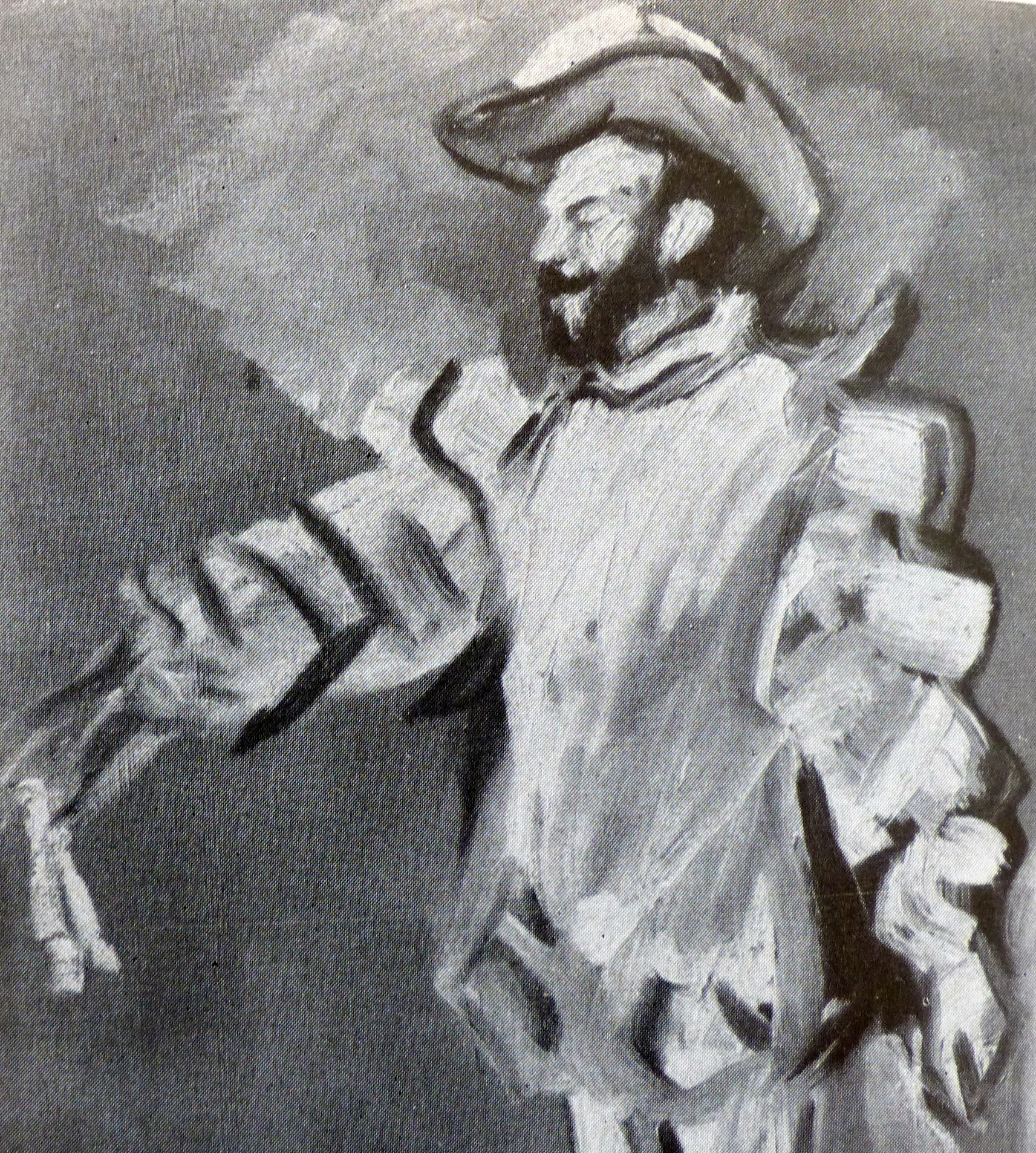 Max Slevogt: Der weiße d'Andrade, Studie, 1902